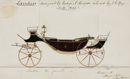 'Landau' carriage, 1855 Coloured drawing by J Gilfoy of a carriage designed by George N Hooper. From a collection of carriage designs by Hooper & Co (Coach Builders) Ltd, Haymarket, London.